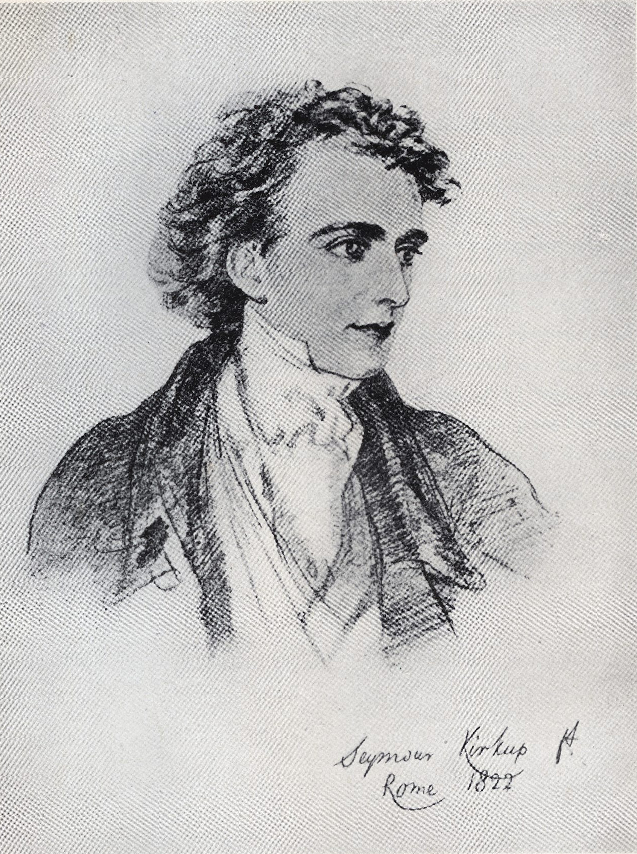 Portrait of Joseph Severn by his friend Seymour Kirkup (1822)